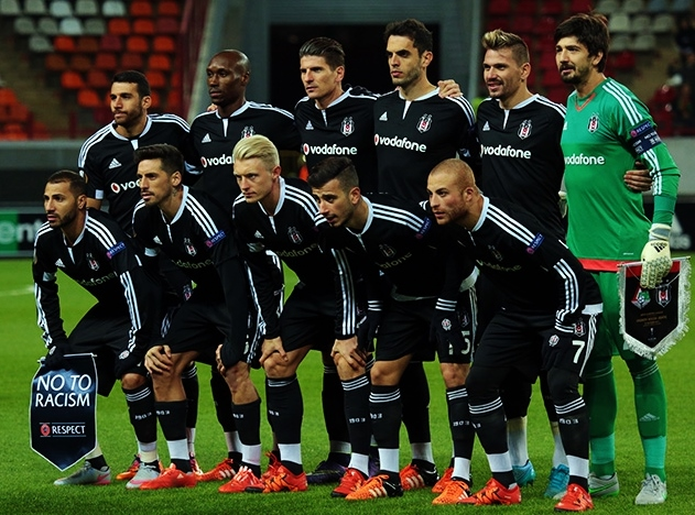 Beşiktaş J.K. 2015